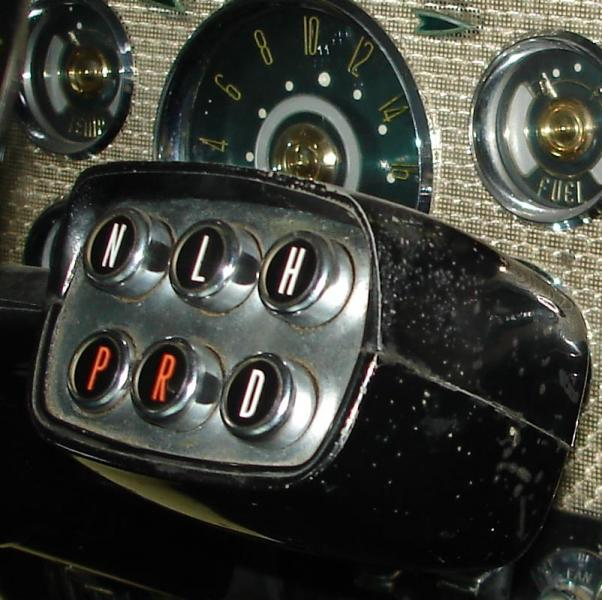 Electric Push button selector for Twin Ultramatic transmission as used in some 1956 Packards. It was stock standard equipment for Caribbean, and a $52.00 option for all other Packards and Clippers.